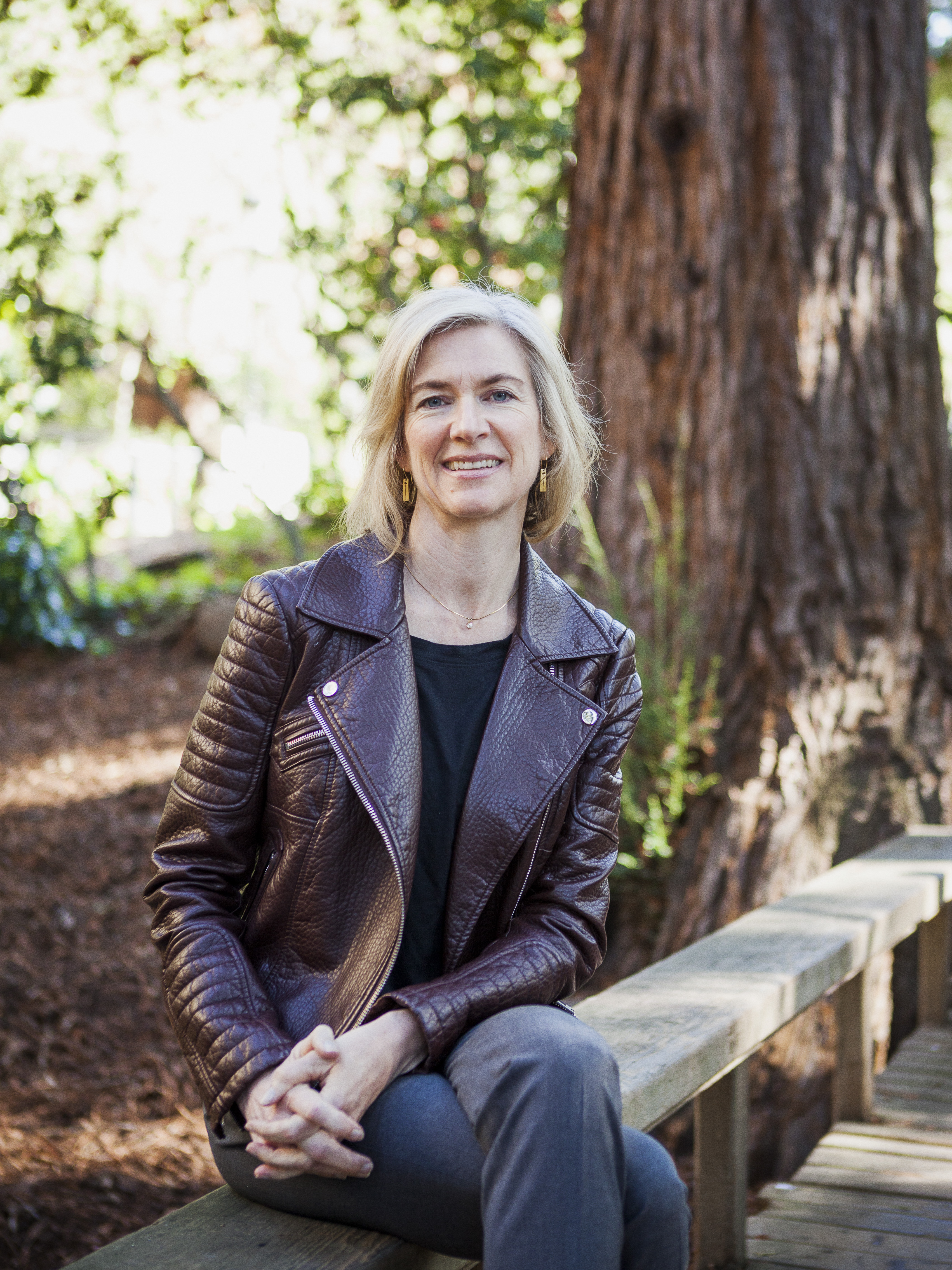 Jennifer Doudna, hoogleraar biomedische wetenschappen, University of California, Berkeley (Verenigde Staten), krijgt de Dr. H.P. Heinekenprijs voor de Biochemie en Biofysica 2016 voor haar baanbrekende onderzoek naar de structuur en de werking van RNA-moleculen en RNA-eiwit-complexen. Bij gebruik van de foto's is naamsvermelding van de fotograaf verplicht: Jussi Puikkonen/KNAW. = Jennifer Doudna, Professor of Biomedical Sciences at the University of California, Berkeley (US), will receive the 2016 Dr H.P. Heineken Prize for Biochemistry and Biophysics for her pioneering research into the structure and functioning of RNA molecules and RNA protein complexes. Re-use of these photographs must be accompanied by proper attribution: Jussi Puikkonen/KNAW